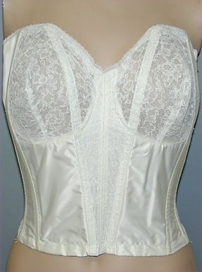 own work